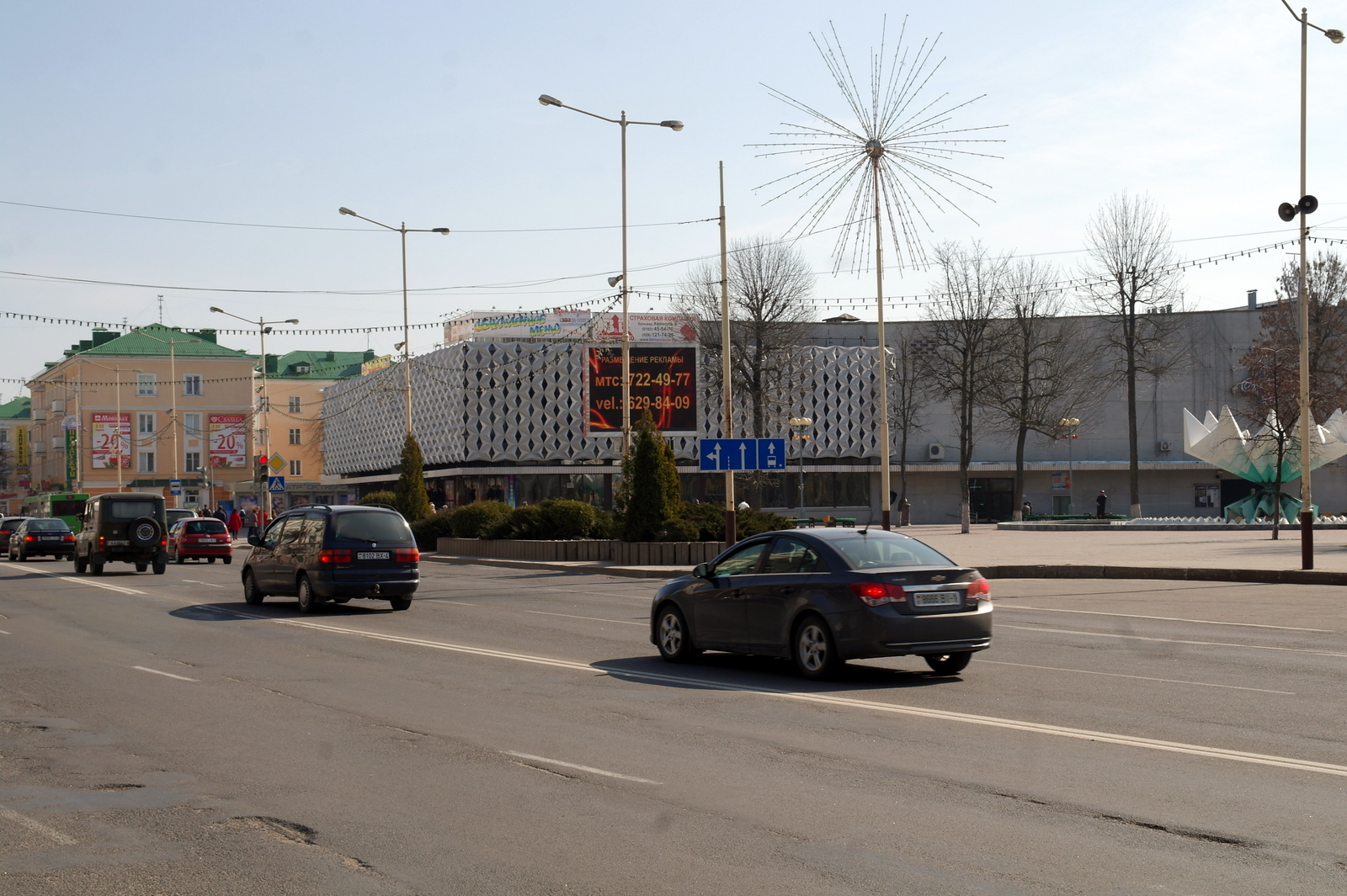 Lenin Square, Baranovichi city. Cinema October